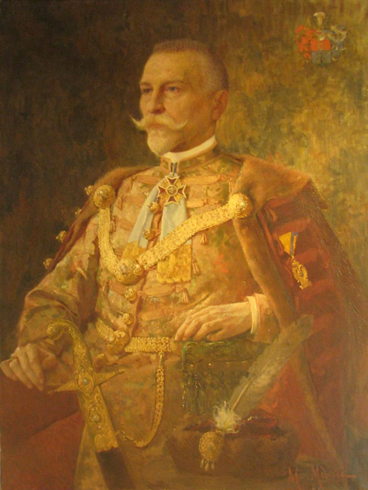 Painting of Adolf Mošinski, mayor of Zagreb, work of Celestin Medović